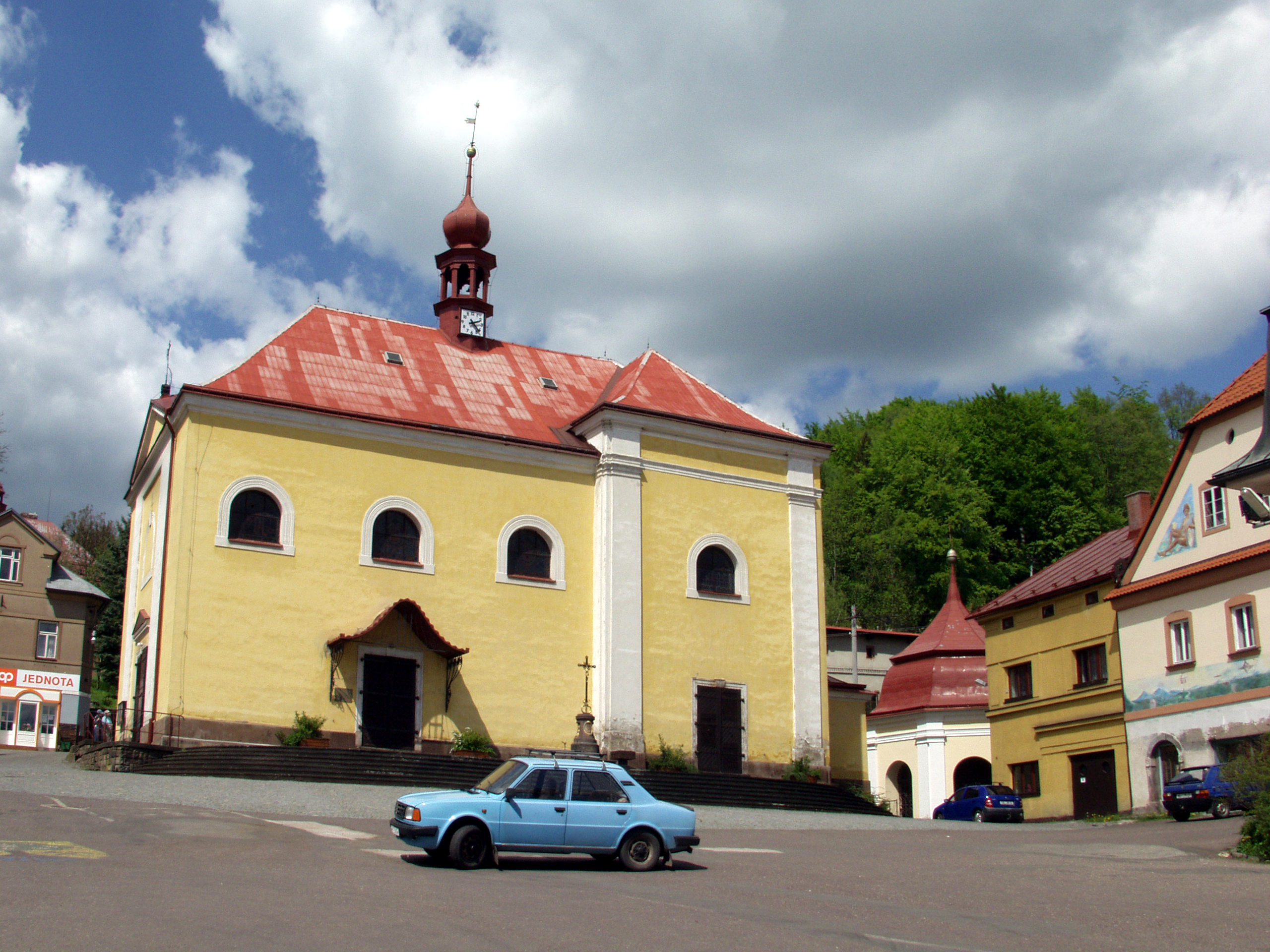 Malé Svatoňovice - baroque Roman Catholic church of Seven Joys of the Virgin Mary (1734)